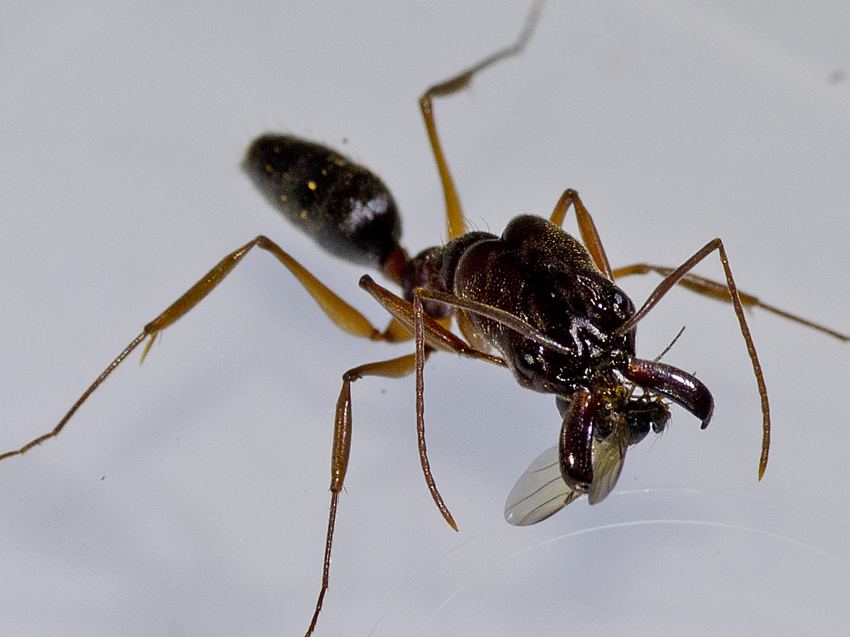 An Odontomachus ant eating a captured Dohrniphora conlanorum female